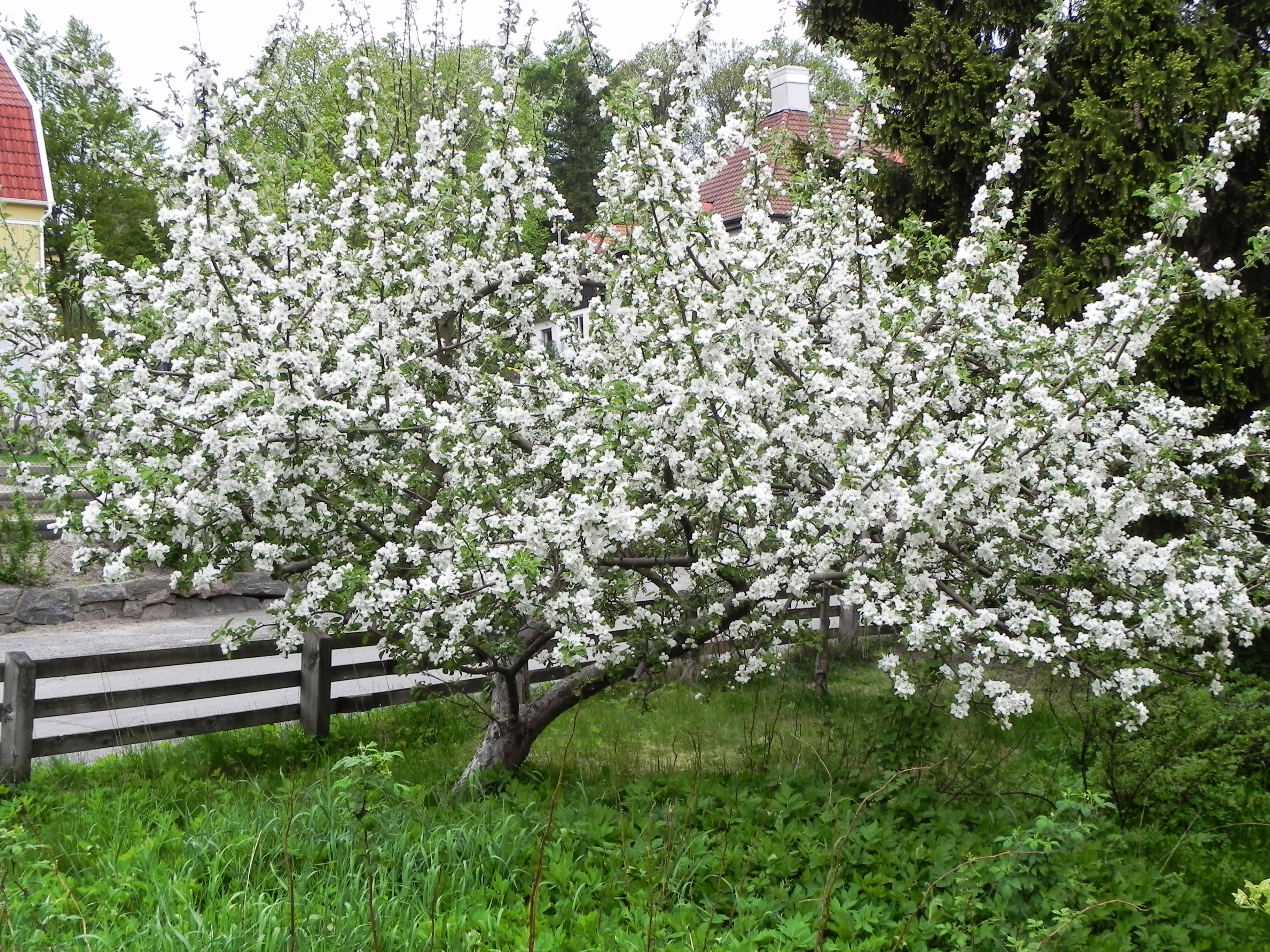 Blossoming Belle de Boskoop apple tree from Mölndal, Sweden